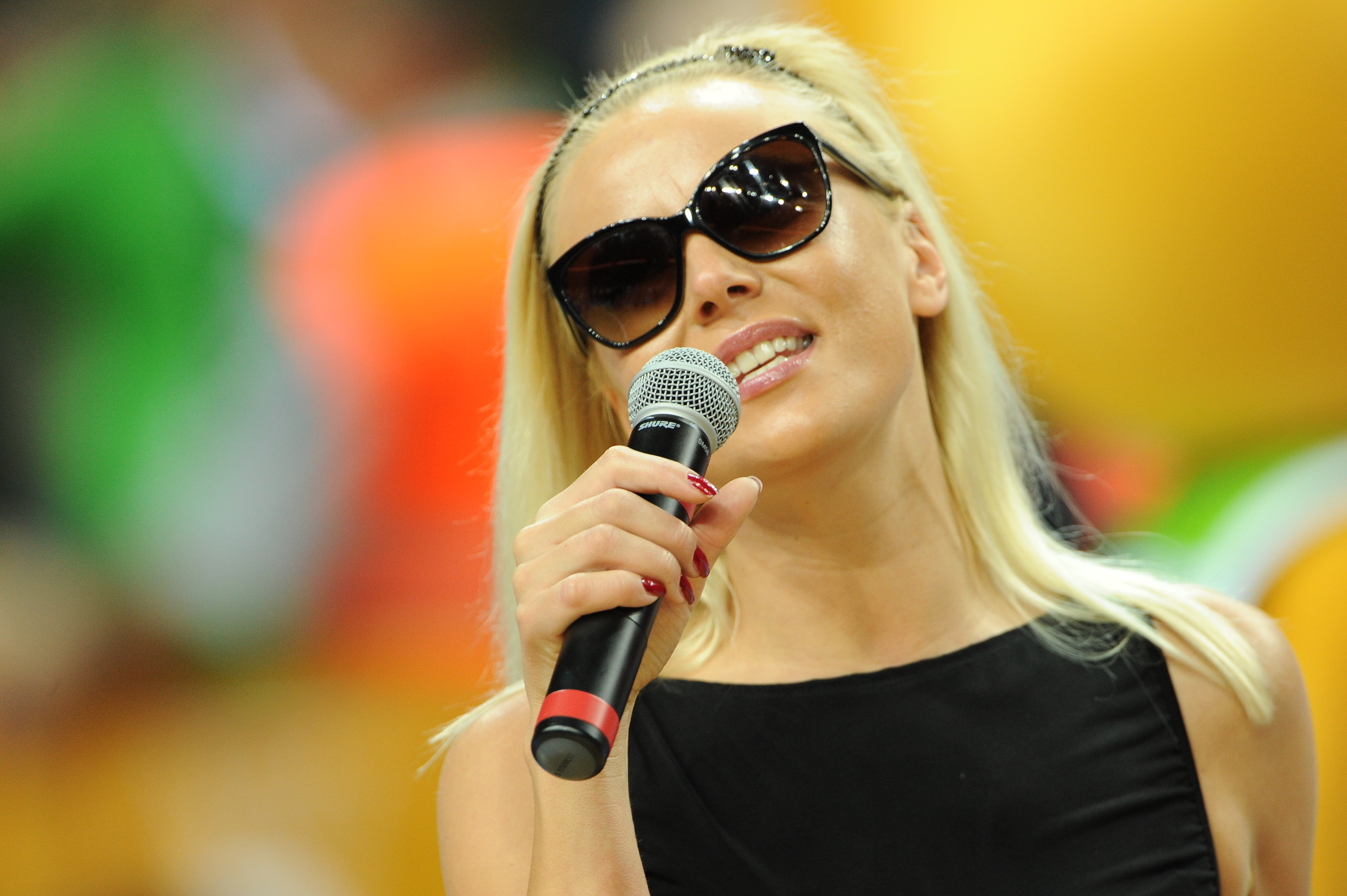 MIA singing during EuroBasket 2011.